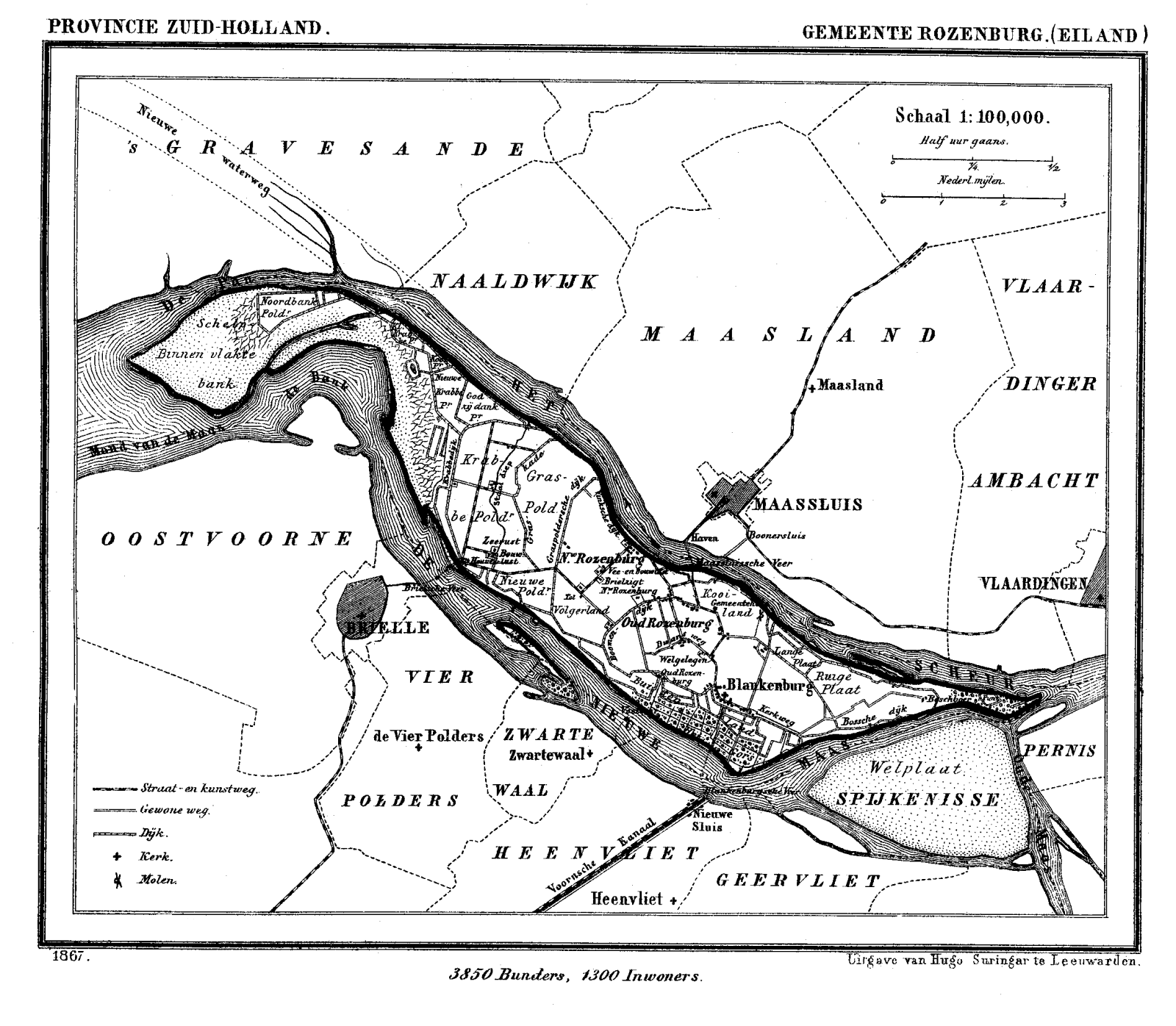 Historic map of Rozenburg, South Holland, the Netherlands